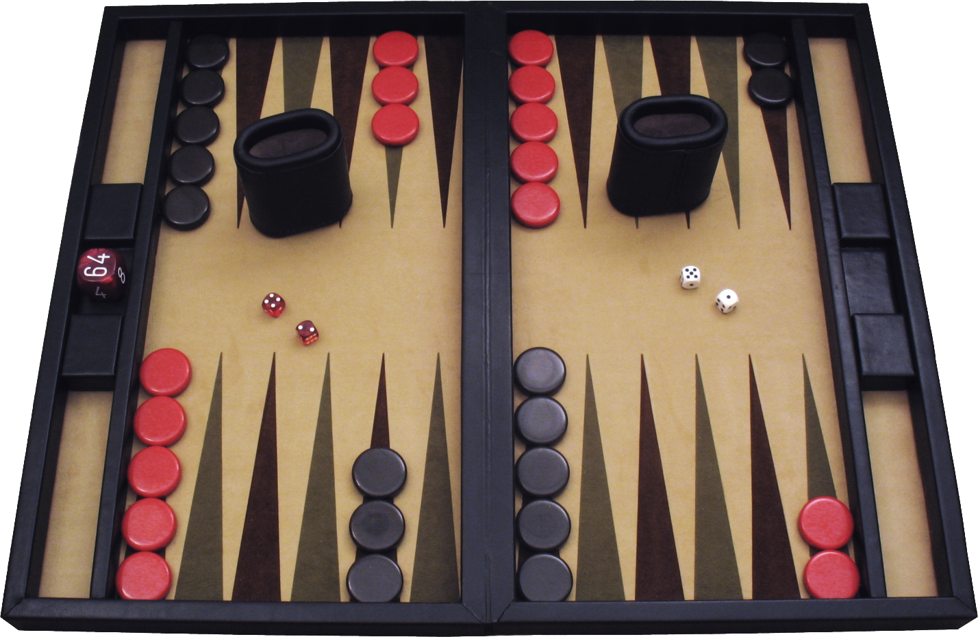 A contemporary backgammon set.